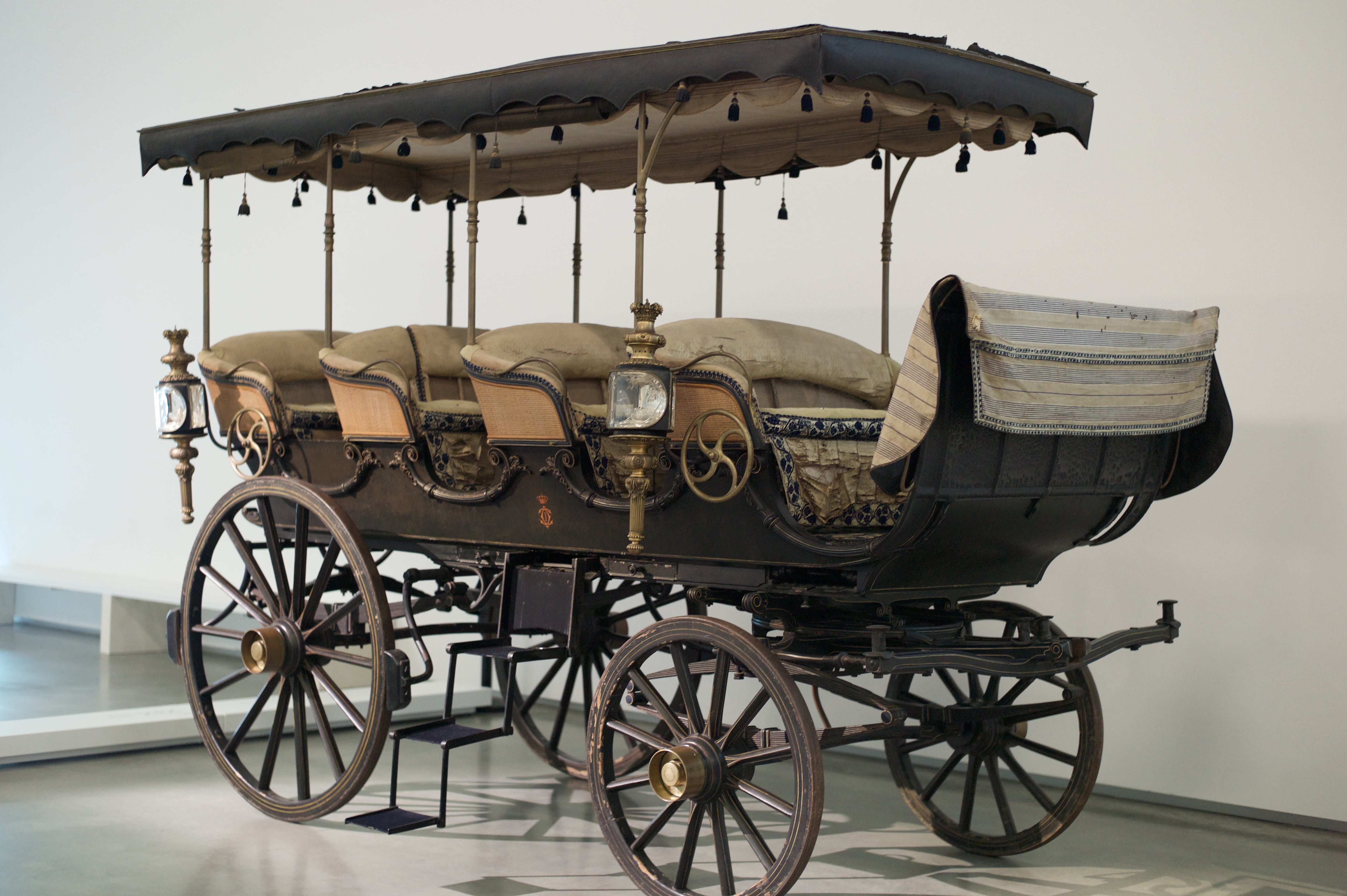 Promenade or hunting vehicle. Coach Museum, Belem, Lisbon, Portugal Thrupp and Co., London.A vehicle with four benches used for promenades in the country or hunting expeditions. It has a removable roof with roll-up blinds. The interior is accessed via fold-out stirrups and slide-out platforms. It has two disk brakes. Commissioned by Queen Maria II, it features the painted monogram of King Carlos I, its last owner.